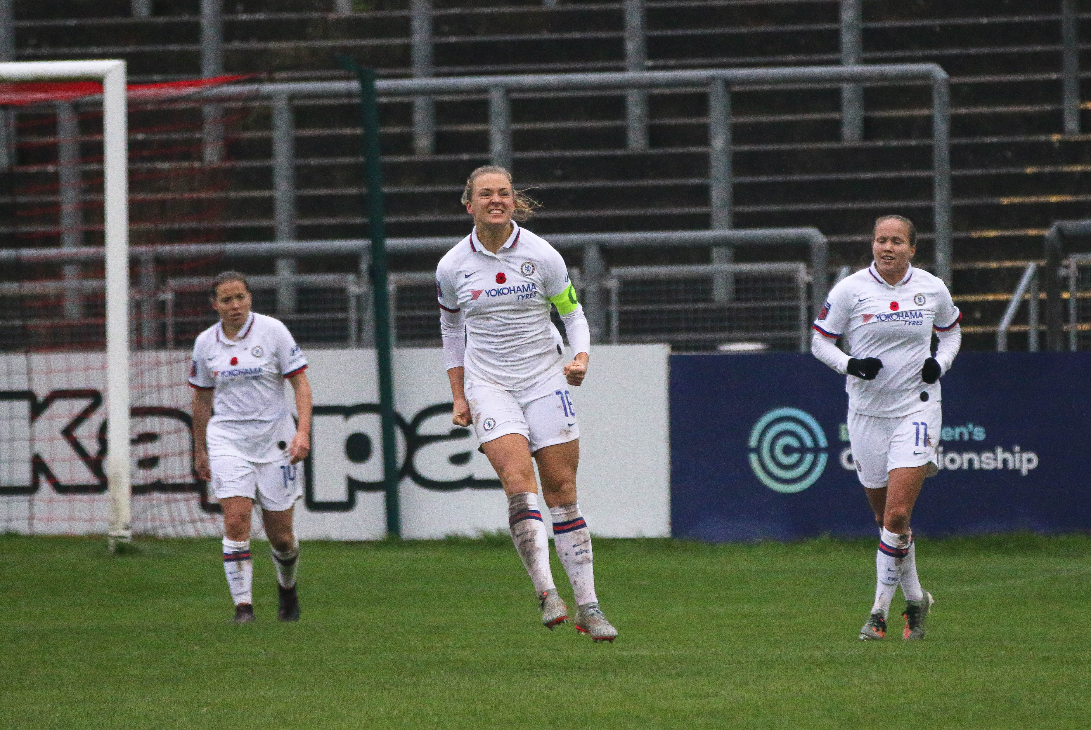 Lewes FC Women 1 Chelsea Women 2 Conti Cup 02 11 2019-Magdelena Eriksson celebrates her winning goal.jpg